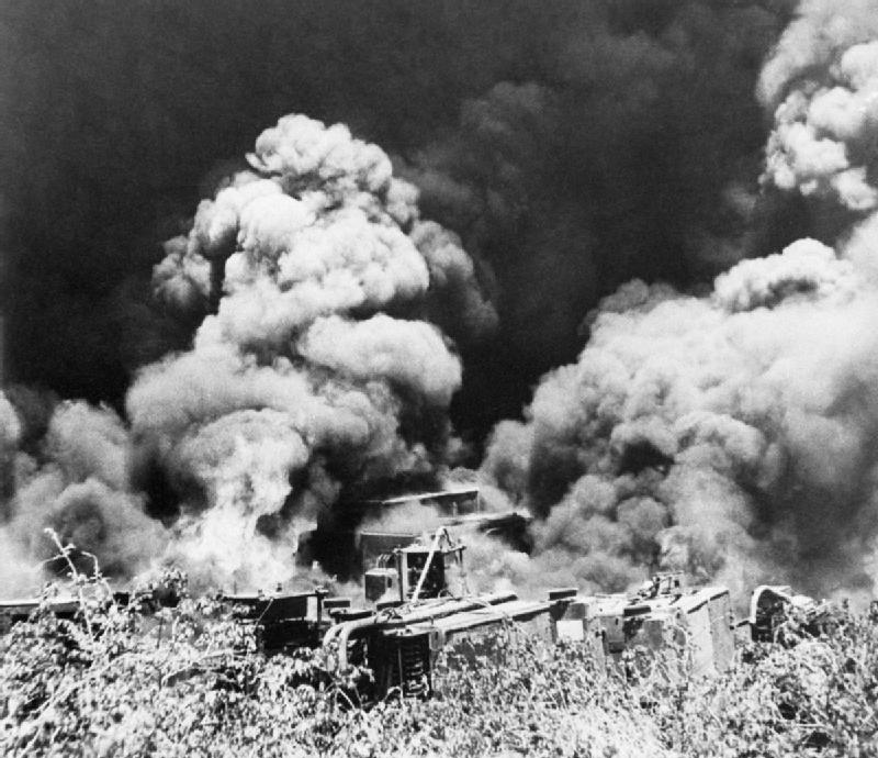 British troops destroy equipment and machinery at the Yenangyaung oilfields in Burma before retreating, 16 April 1942. The Retreat into India: British troops destroy equipment and machinery at the Yenangyaung oilfields before retreating.